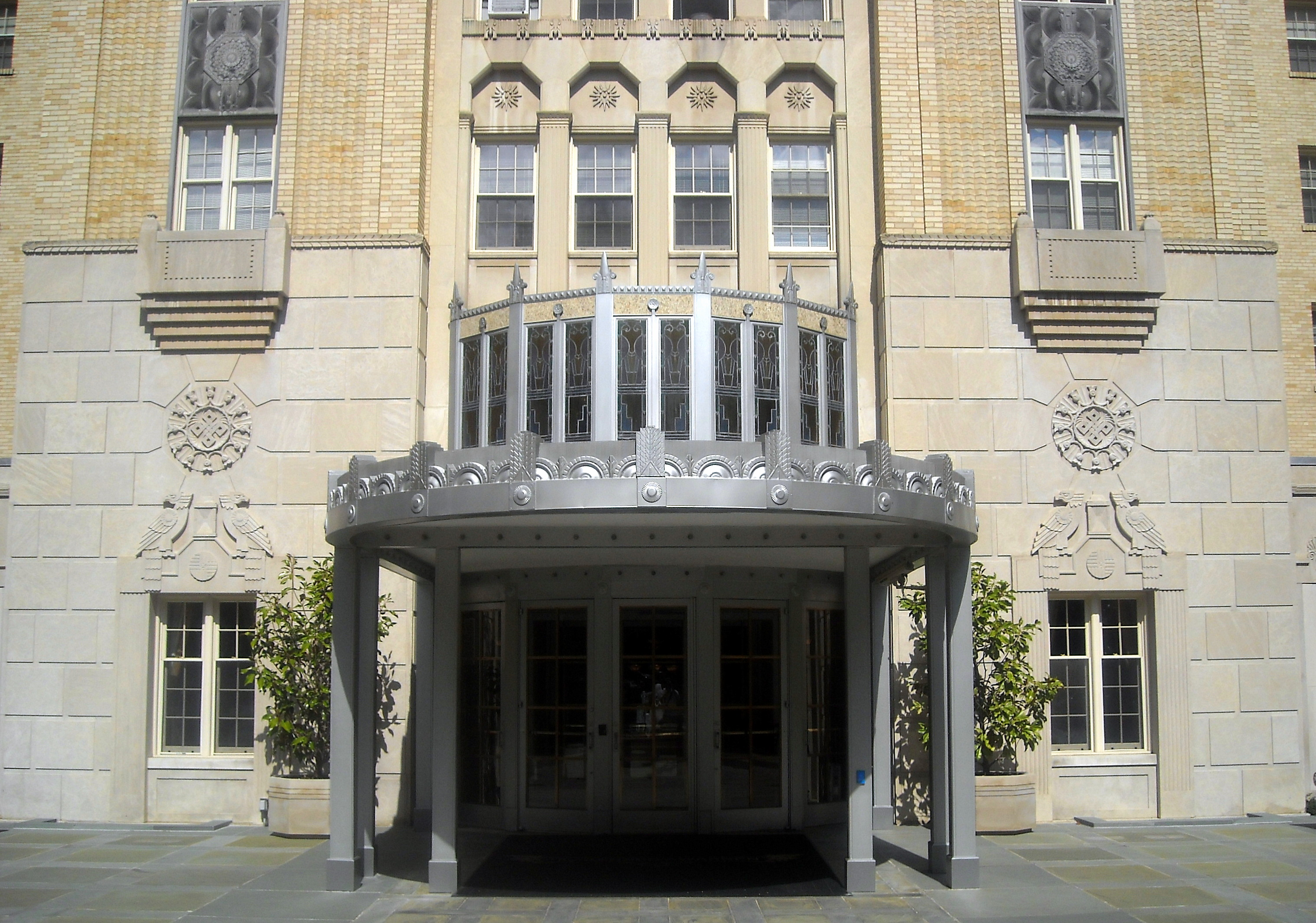 Kennedy-Warren Apartment Building in the Cleveland Park neighborhood of Washington The Art Deco building is listed on the National Register of Historic Places.